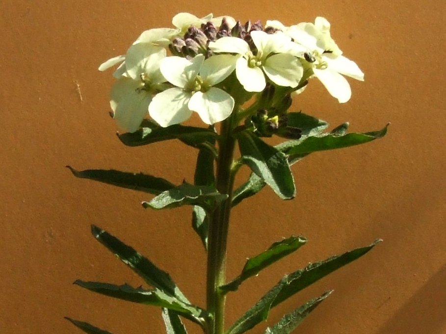 Erysimum wittmanii